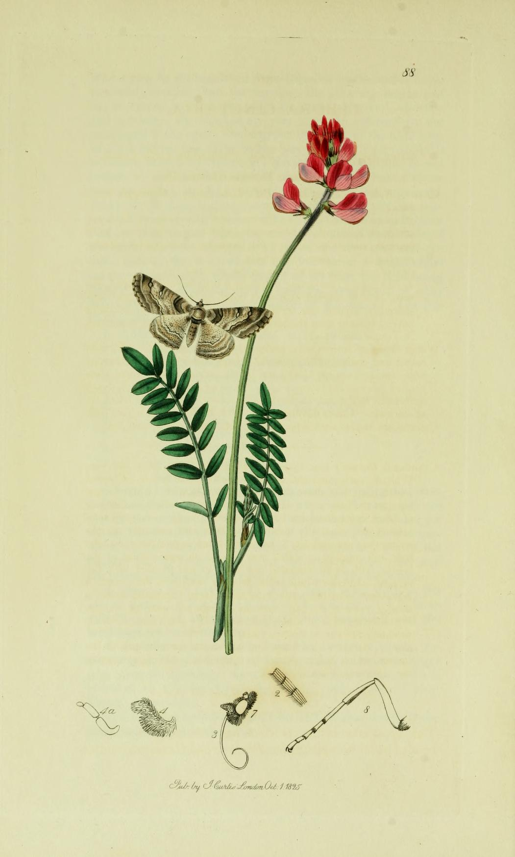 An illustration from British Entomology by John Curtis. Lepidoptera: Cleora cinctaria (Ringed Carpet).